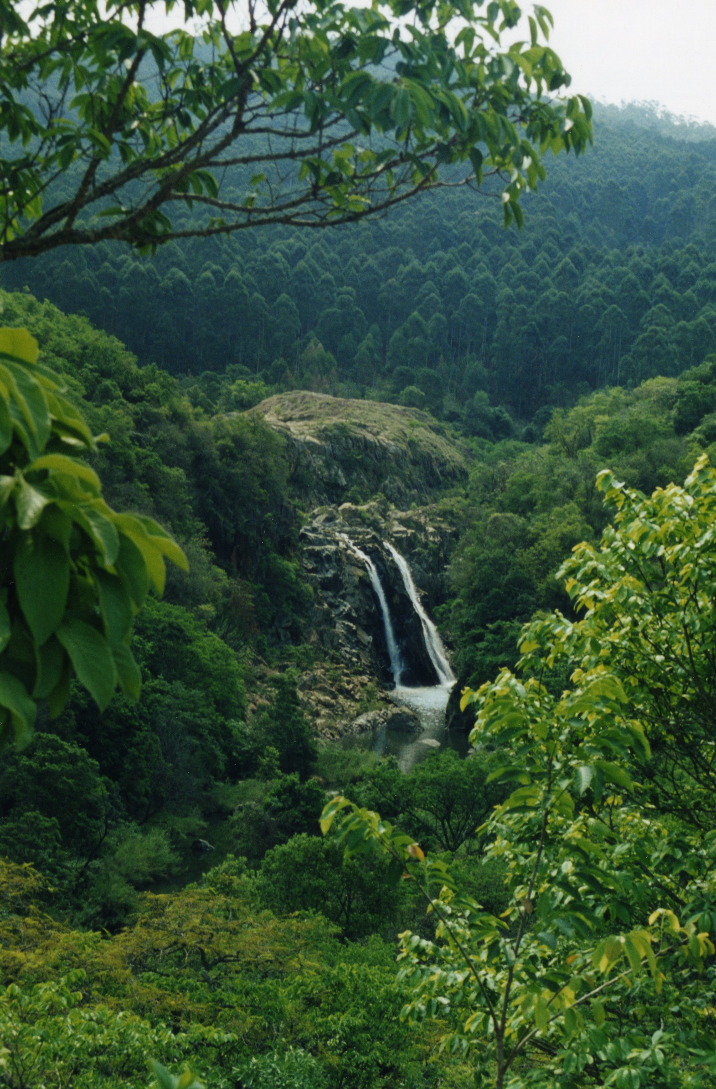 Mantenga Falls in EswatiniMantenga Falls